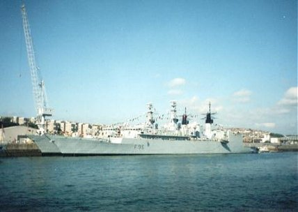 HMS Sheffield (F96) in port.